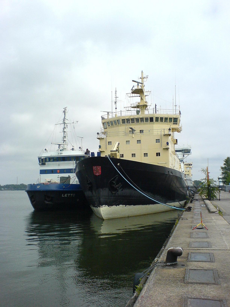 Finnish Icebreaker VOIMA and Anti-Pollution Vessel LETTO VOIMA IMO Number: 5383158 LETTO IMO Number: 7817050 MMSI Number: 230359000 Callsign: OIRP Length: 42 m Beam: 12 m